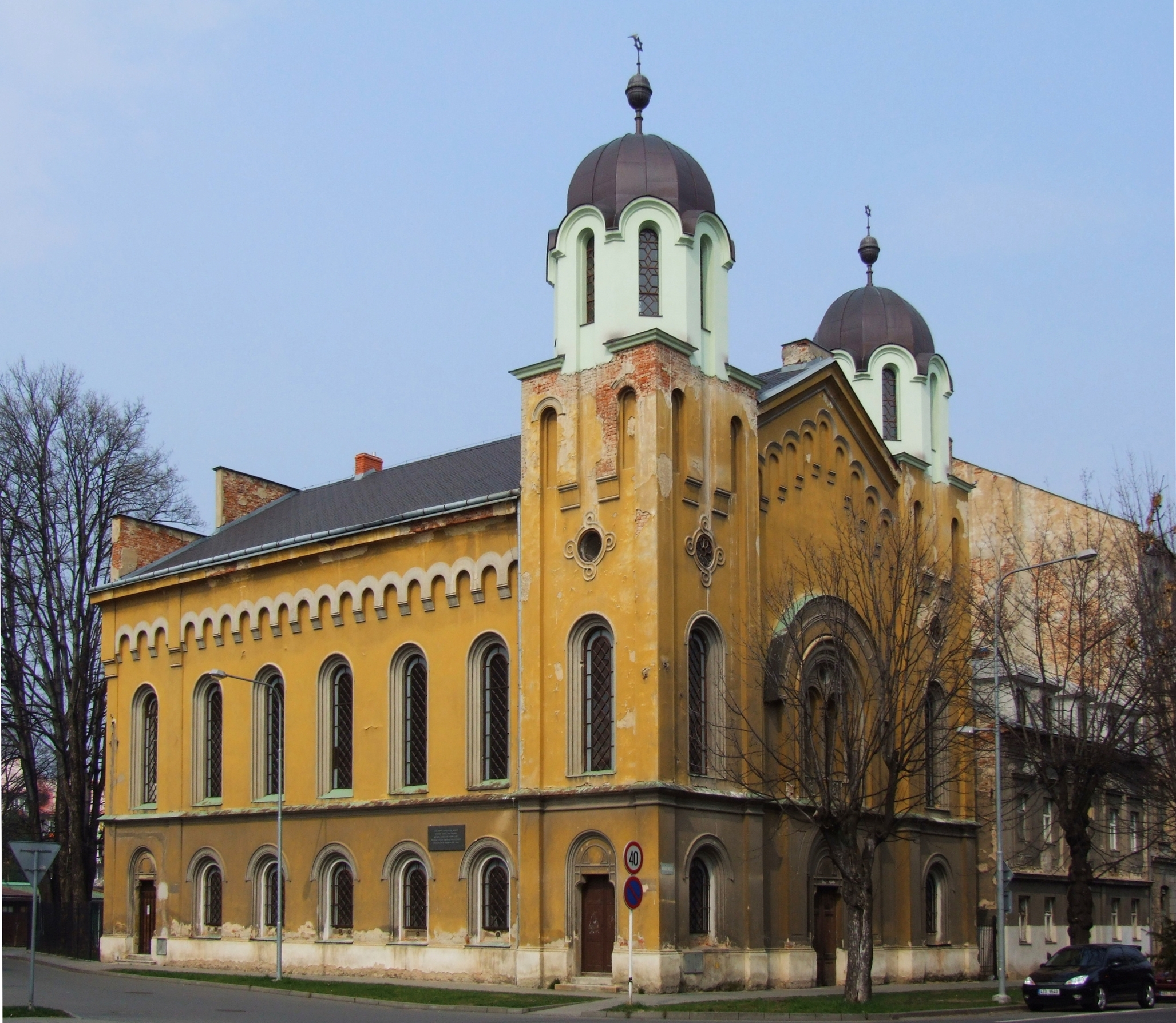 Synagogue in Krnov (German: Jägerndorf), Czech Republic